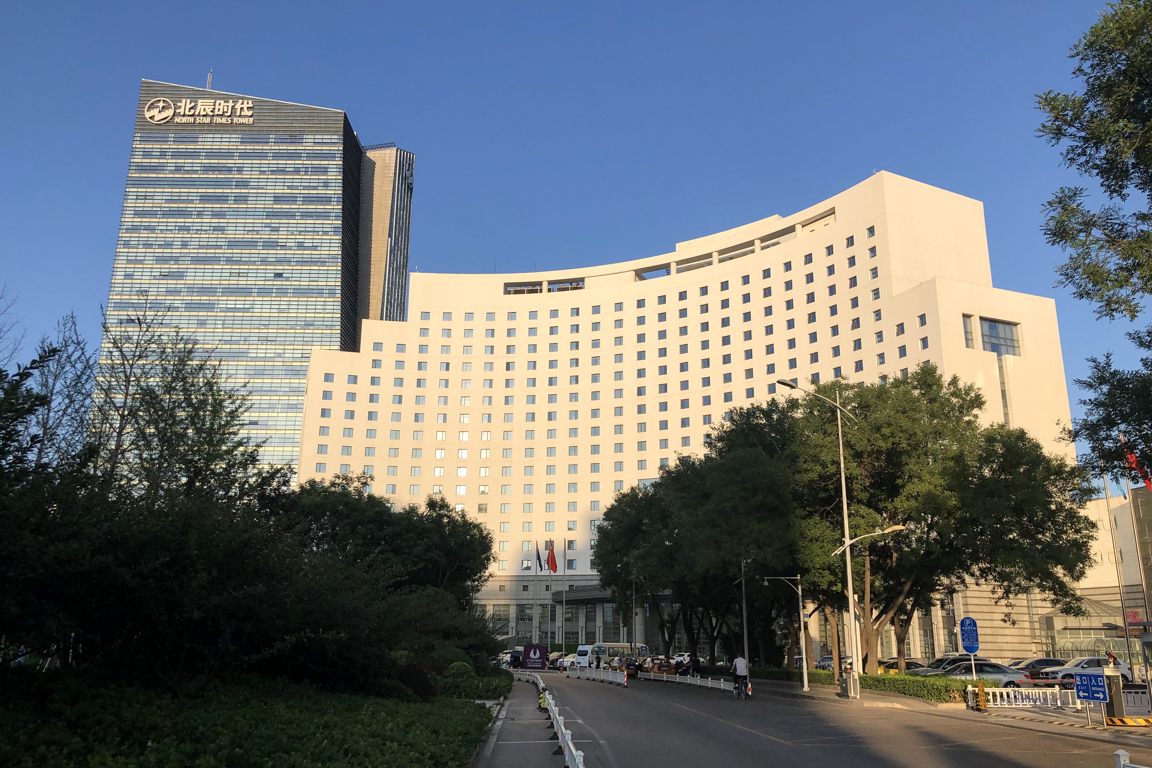 With North Star Times Tower on the northeast.